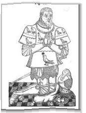 Brass of Sir John Port on his tomb in St Helen's parish church, Etwall, Derbyshire. He founded Etwall Hospital and Repton School.